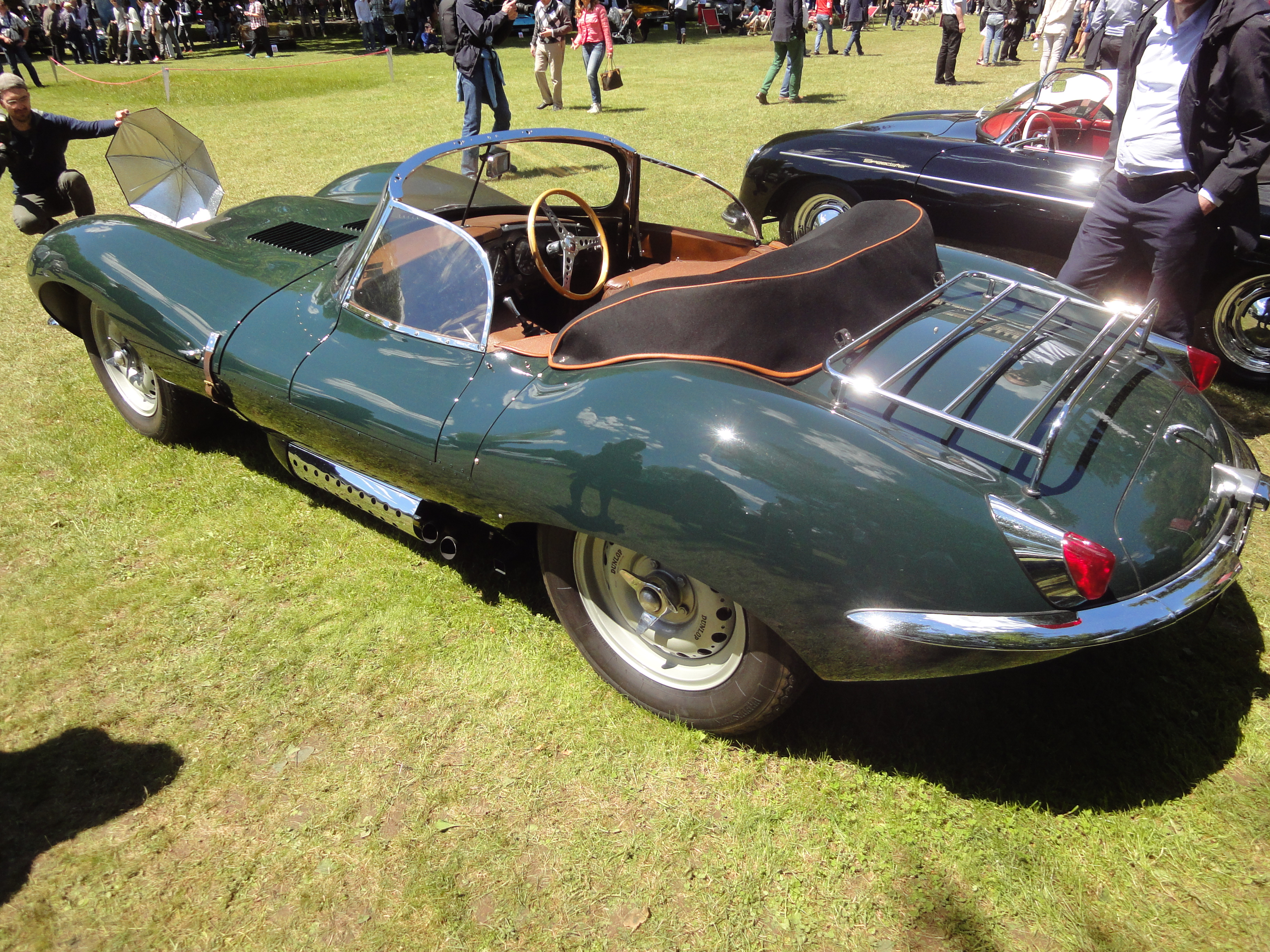 At the Concorso d'eleganza Villa d'Este in Italy on 26 May 2013, a 1956 Jaguar XK-SS (Neumark, Wales, "MVC 558").(video footage of same car at same event) The other car is a 1957 Porsche 356 A speedo (Ni Peng Loh, China).[1]